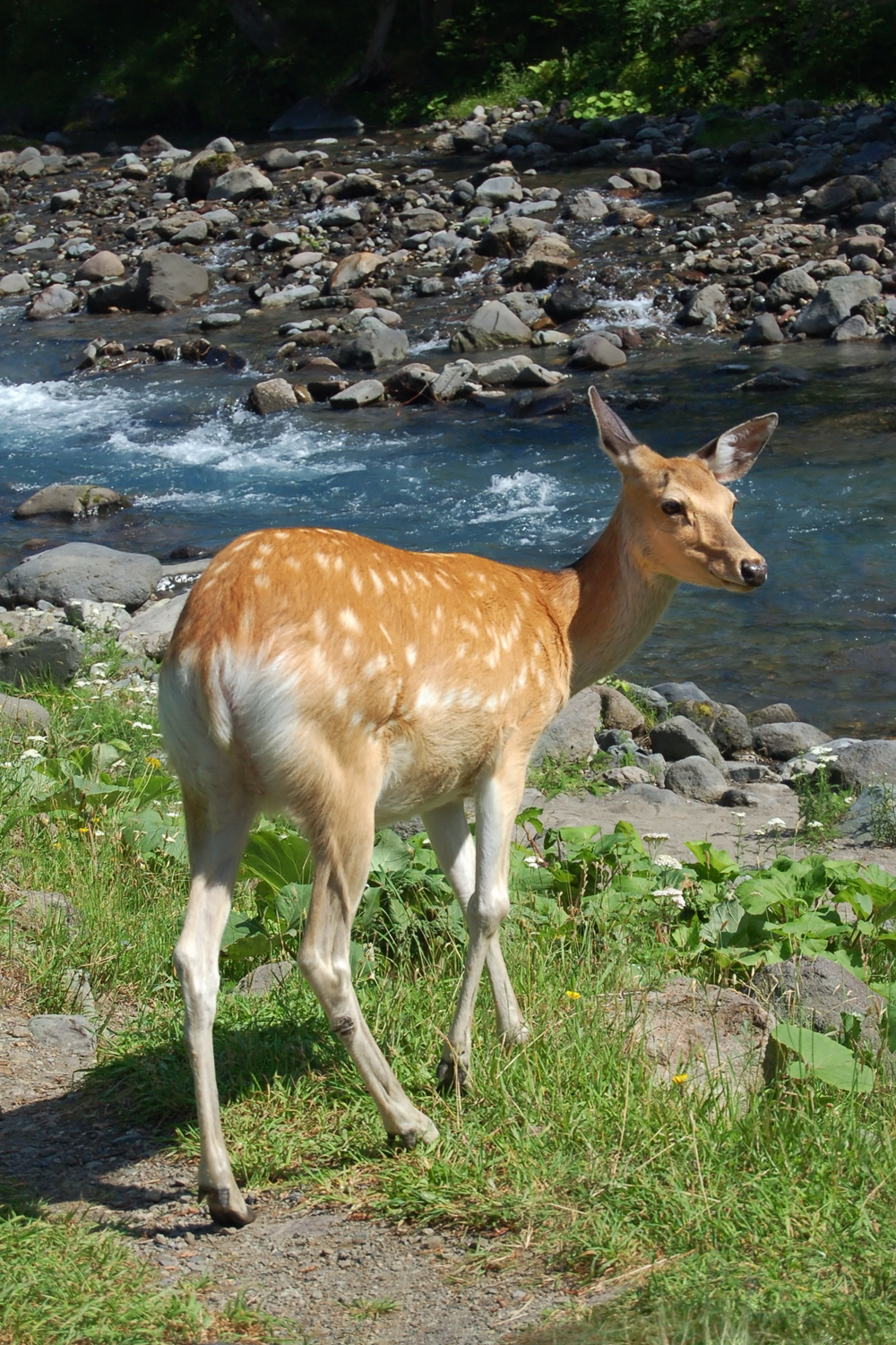 Wild sika deer (Cervus nippon) by a river in Shiretoko Peninsula, Hokkaido, Japan.